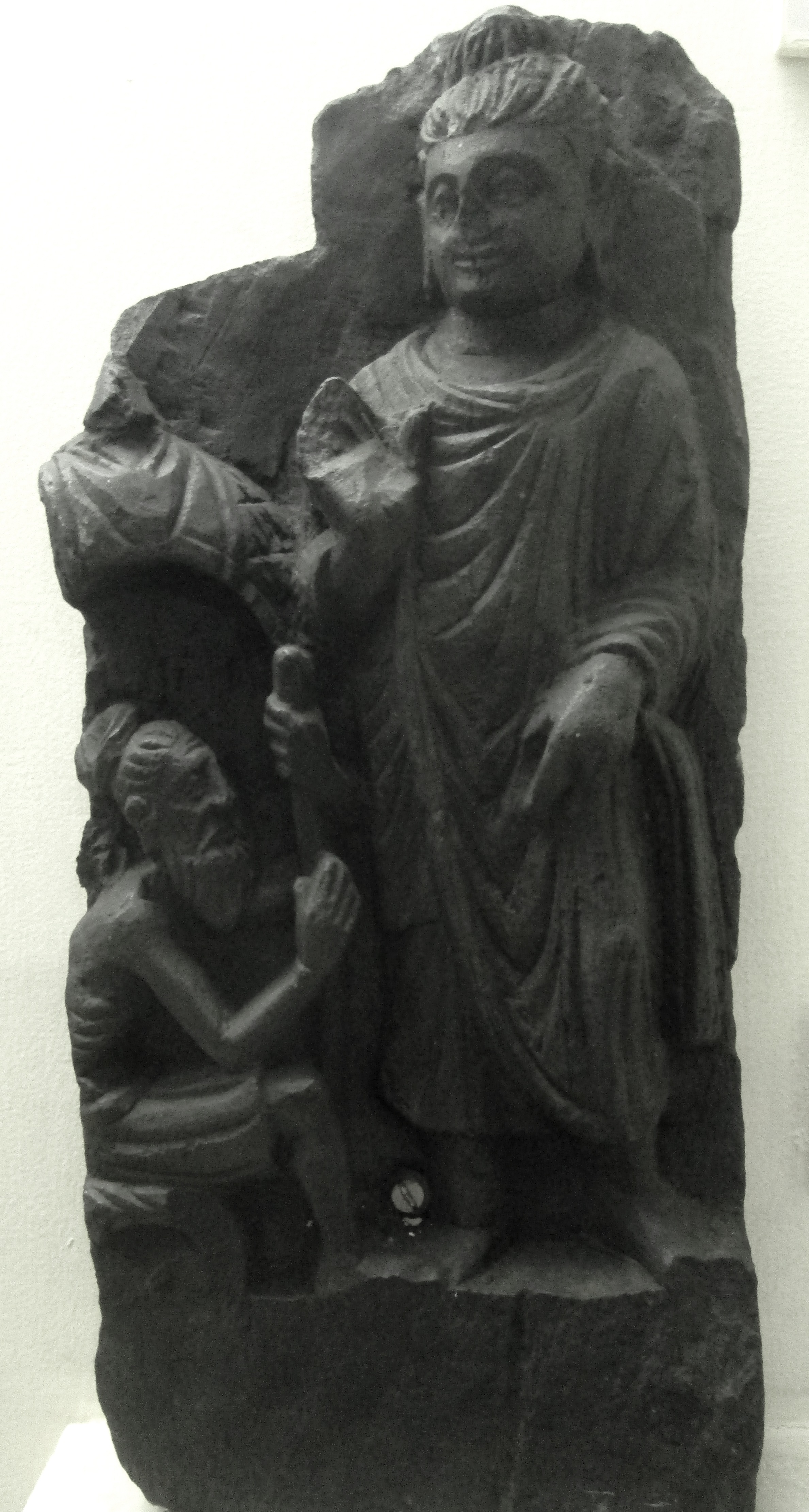 034 Buddha meets a Brahmin, at the Indian Museum, Kolkata Photograph from the Indian Museum in West Bengal taken by Anandajoti.